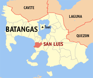 Map of Batangas showing the location of San Luis